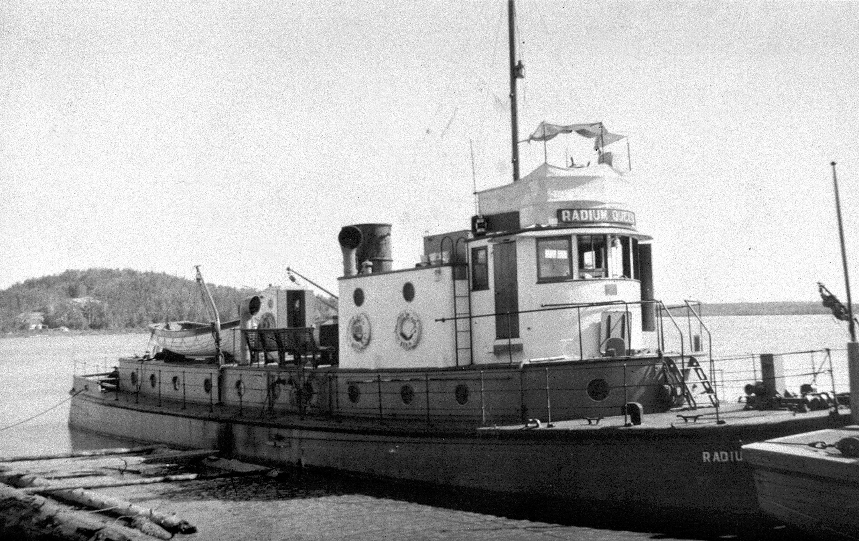 Radium Queen at the Fort Fitzgerald docks, July 1, 1937. Original caption: “Fort Fitzgerald Caption: Radium Queen at the Fort Fitzgerald docks, July 1, 1937. 1178.79 Kb 10.00 x 6.30 inches Credit: Edm. Air Museum Ctte./NWT Archives/N-1979-003-0007”